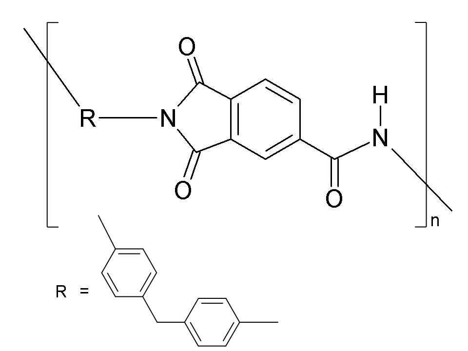 Heat resistant polymer used in electrical devices and coatings